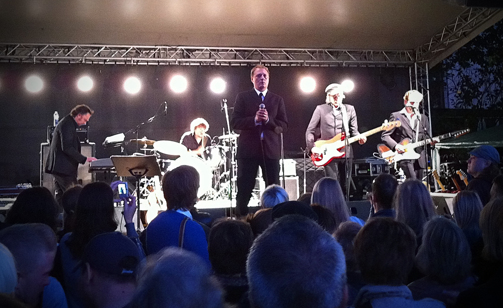 Swedish band Weeping Willows with frontman Magnus Carlson performing in Stockholm, Sweden, August 2011.